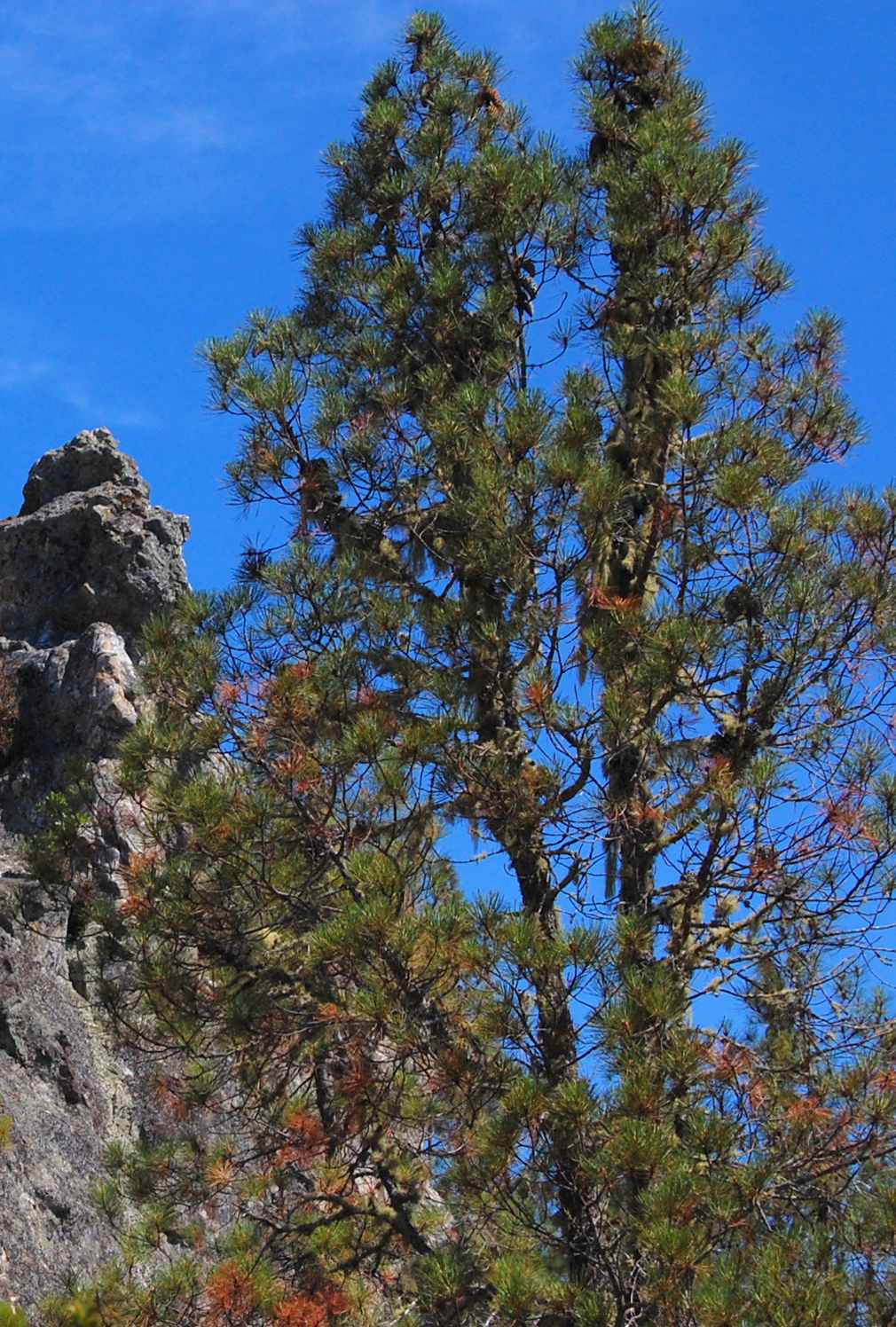 Pinus attenuata on Pine Mountain of the Santa Cruz Mountains, in Santa Cruz County, California